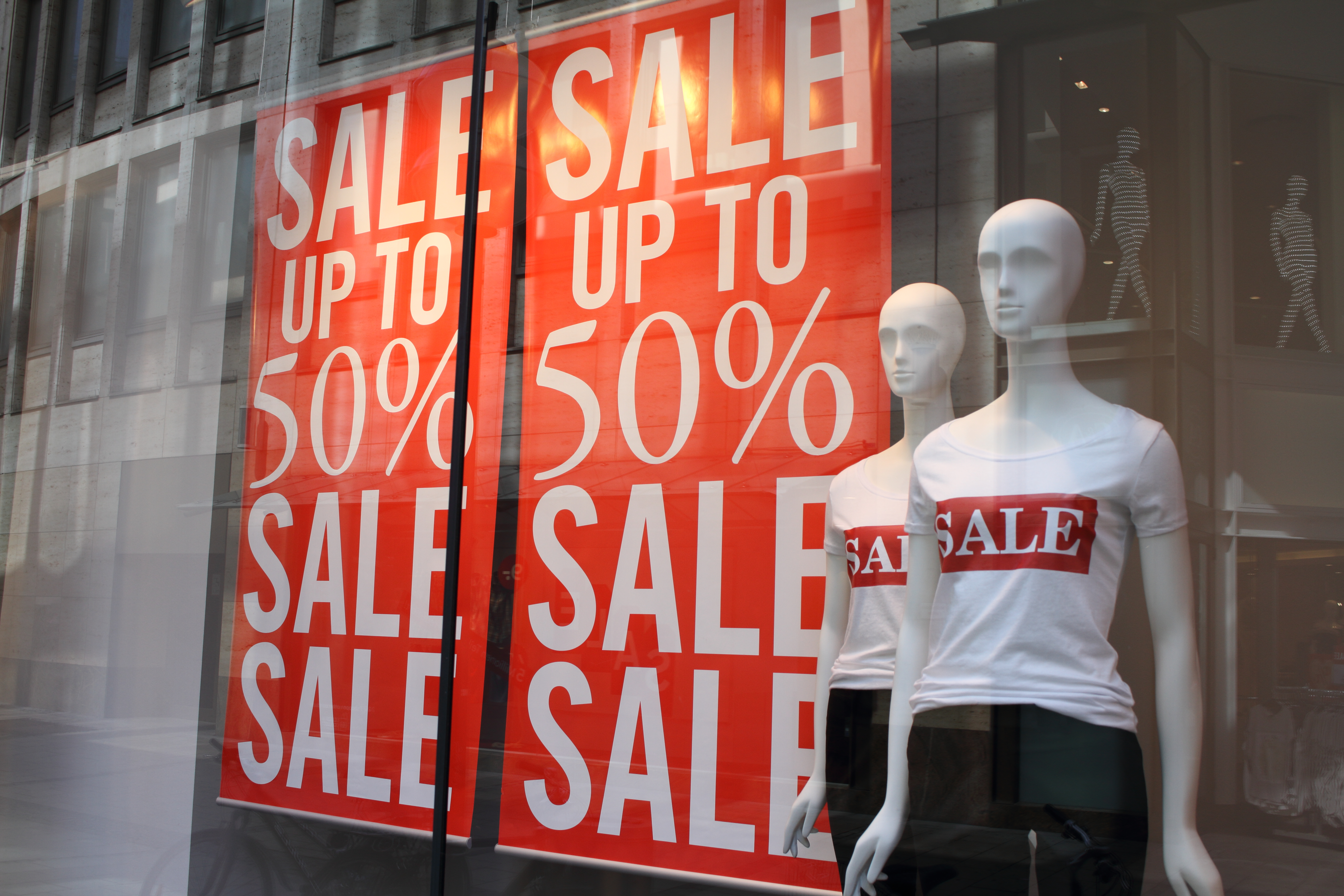 Sales promotion at a shop window in Munich